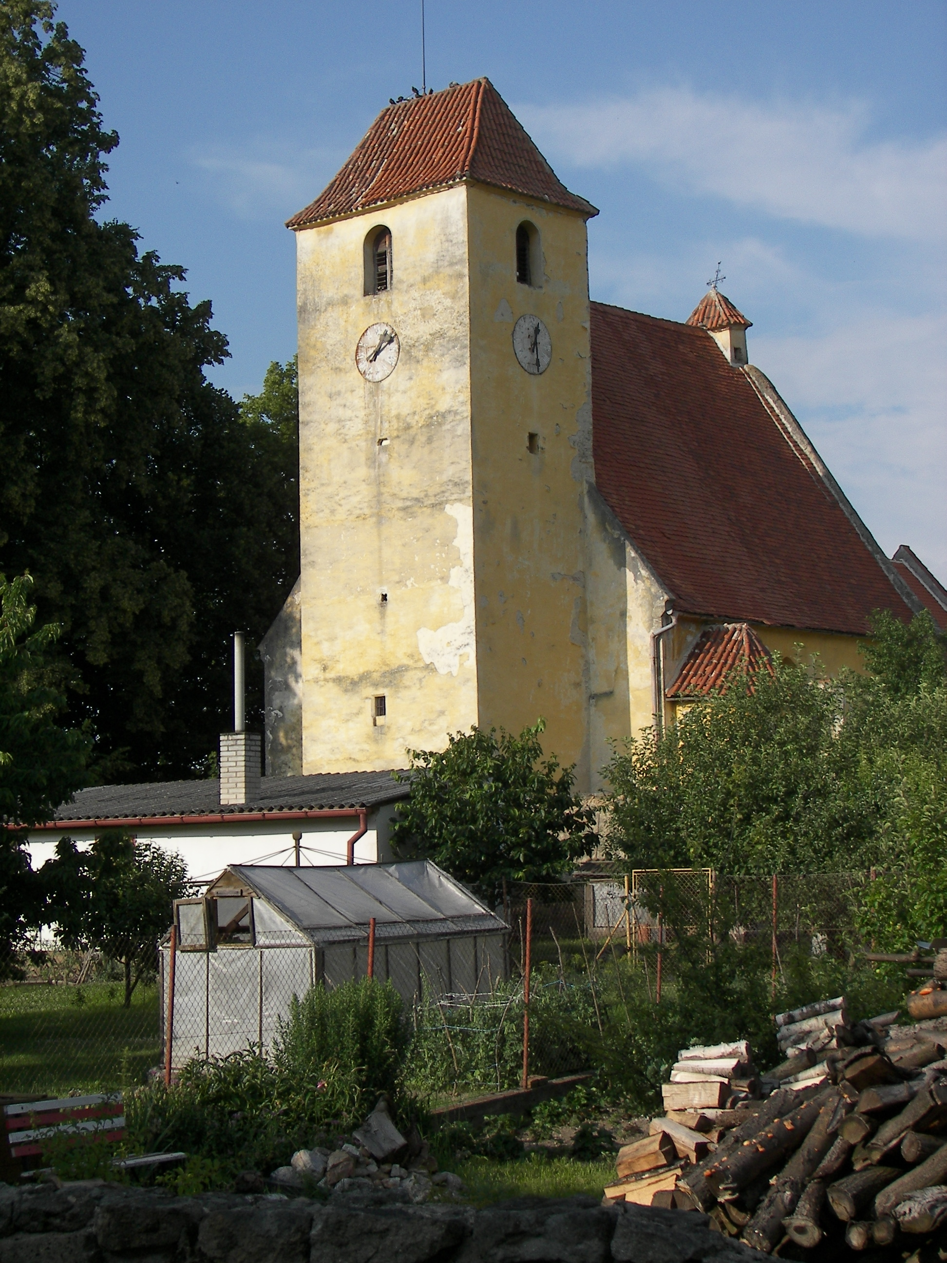 Church of St John the Baptist in village of Žumberk, nowadays a part of Žár municipality, České Budějovice District, Czech Republic.